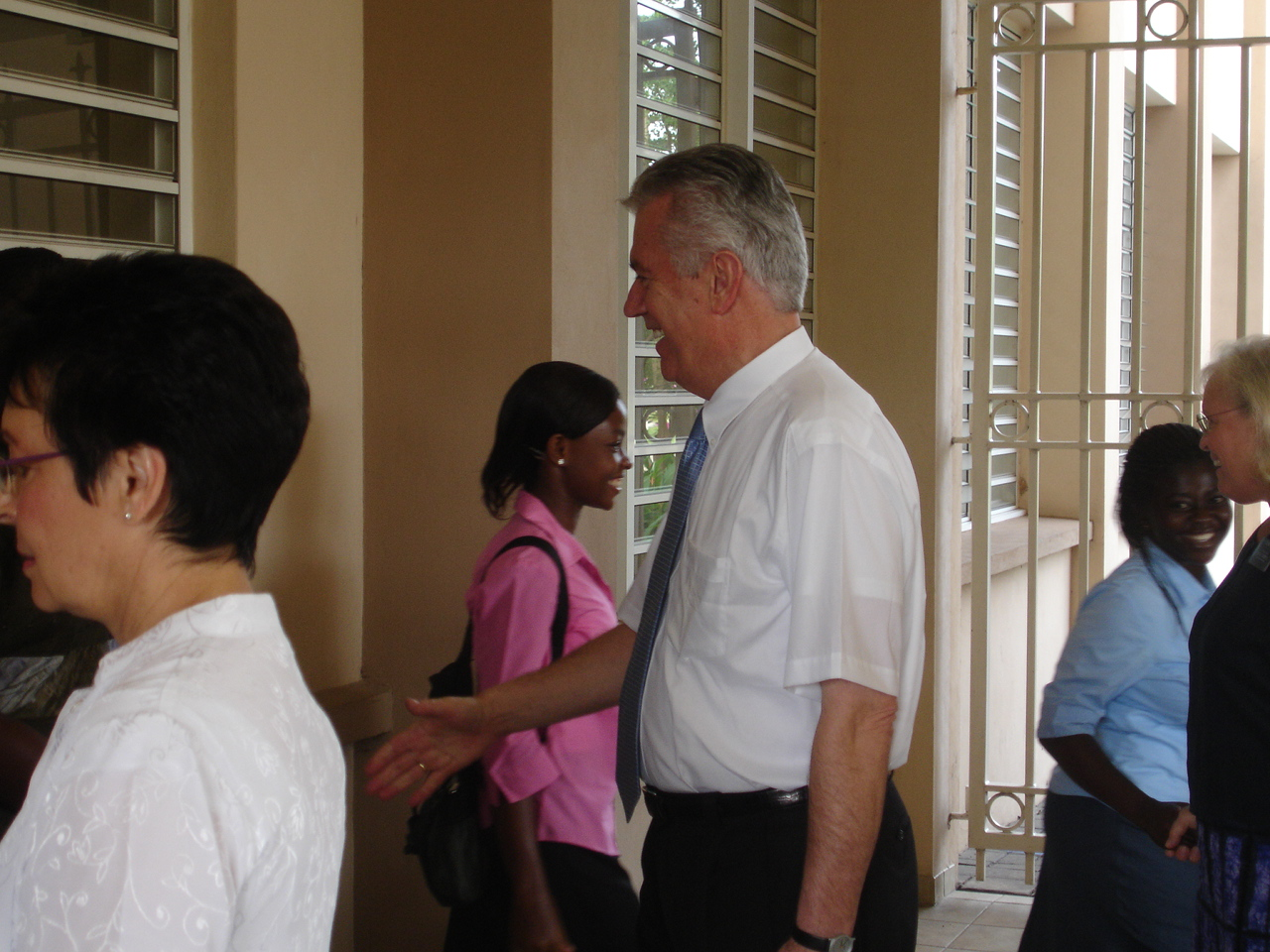 Elder Dieter F. Uchtdorf arrives and starts making the rounds. Sister Gay, the mission president's wife is at the far right. Sister Uchtdorf is at the far left.